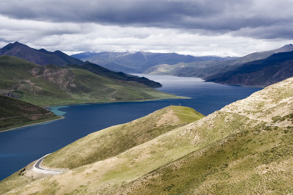 Yamdrok Tso is one of the three largest sacred lakes in Tibet. It is over 72 km (45 miles) long at an altitude of 4488 m